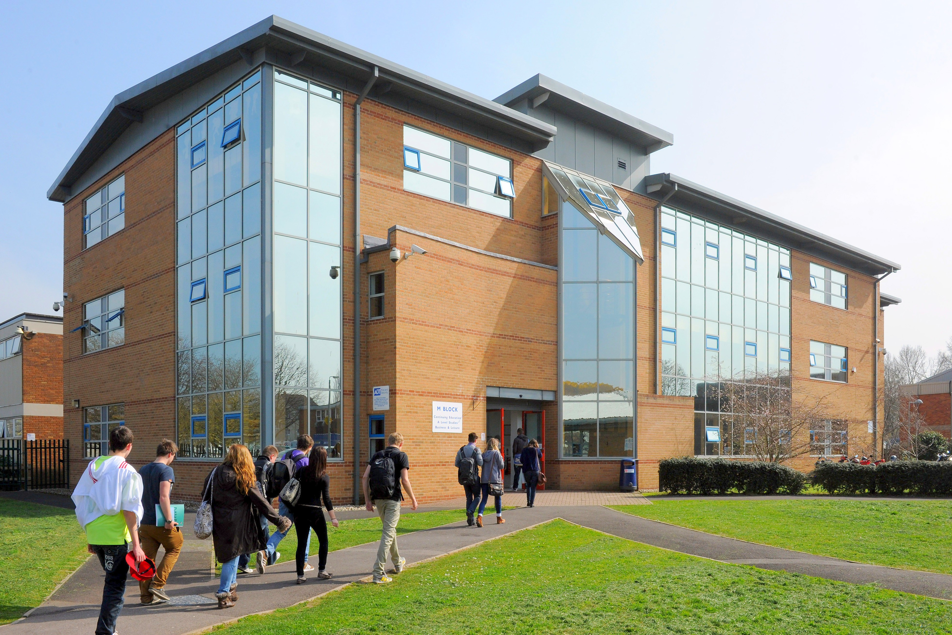 Strode College building within main campus